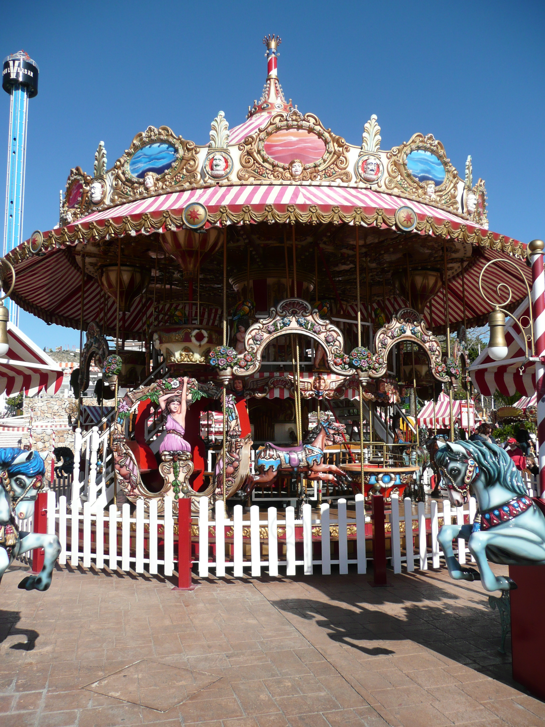 Tivoli World, Benalmádena, Costa del Sol, Spain.